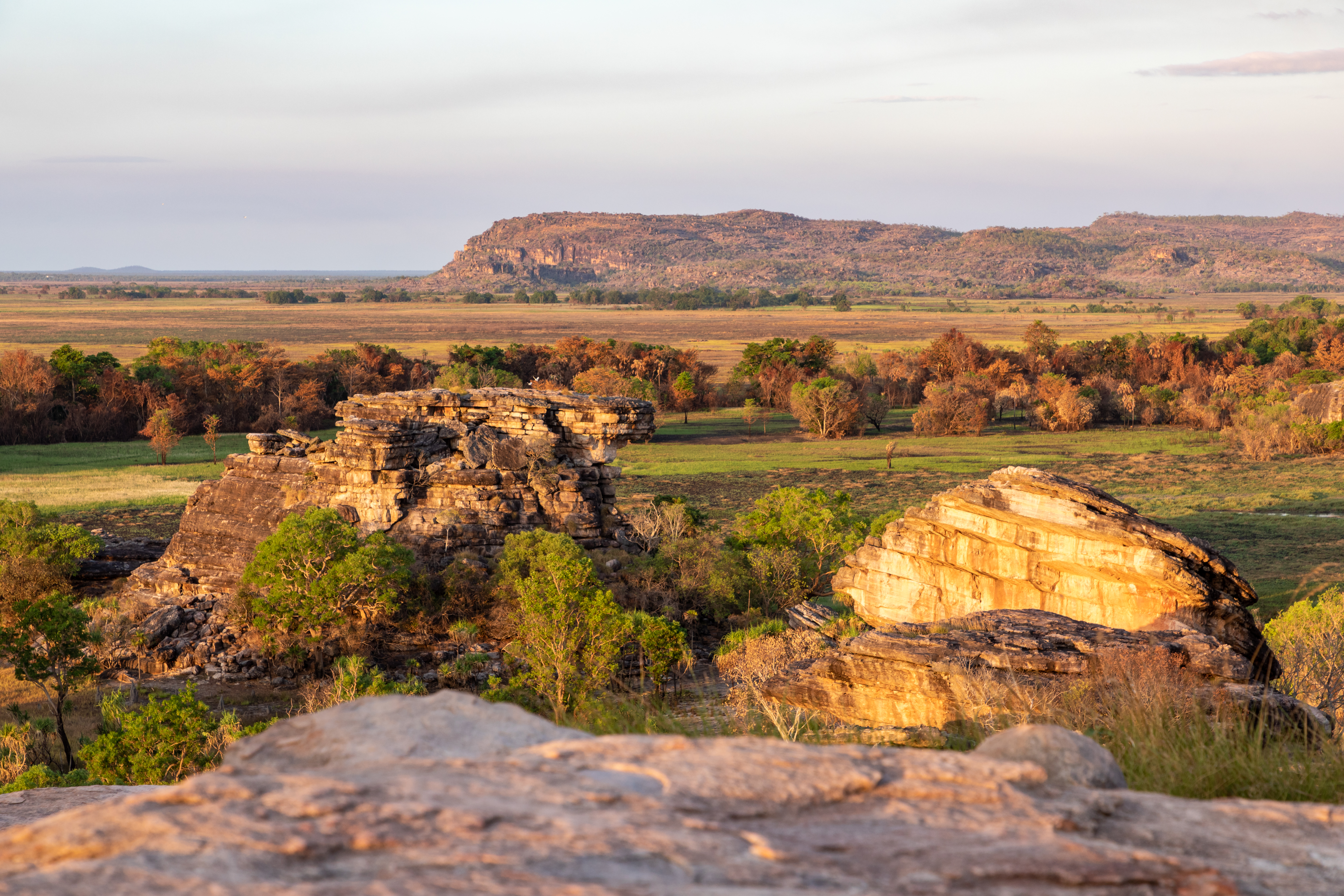 View from Nadap Lookout, Kakadu National Park, Northern Territory, Australia